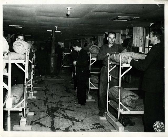 Original caption: “Italian POWs at Camp Butner during World War II. ”